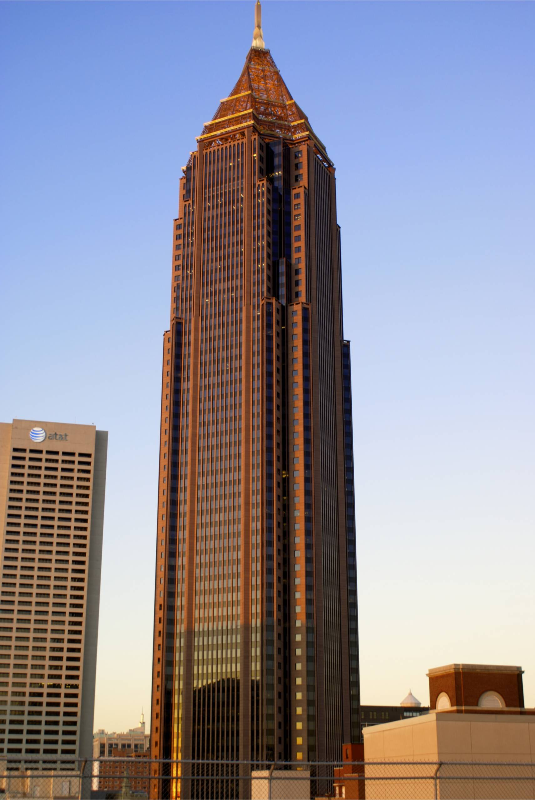 Bank of America Plaza, taken from a parking garage at Emory Crawford Long Hospital.